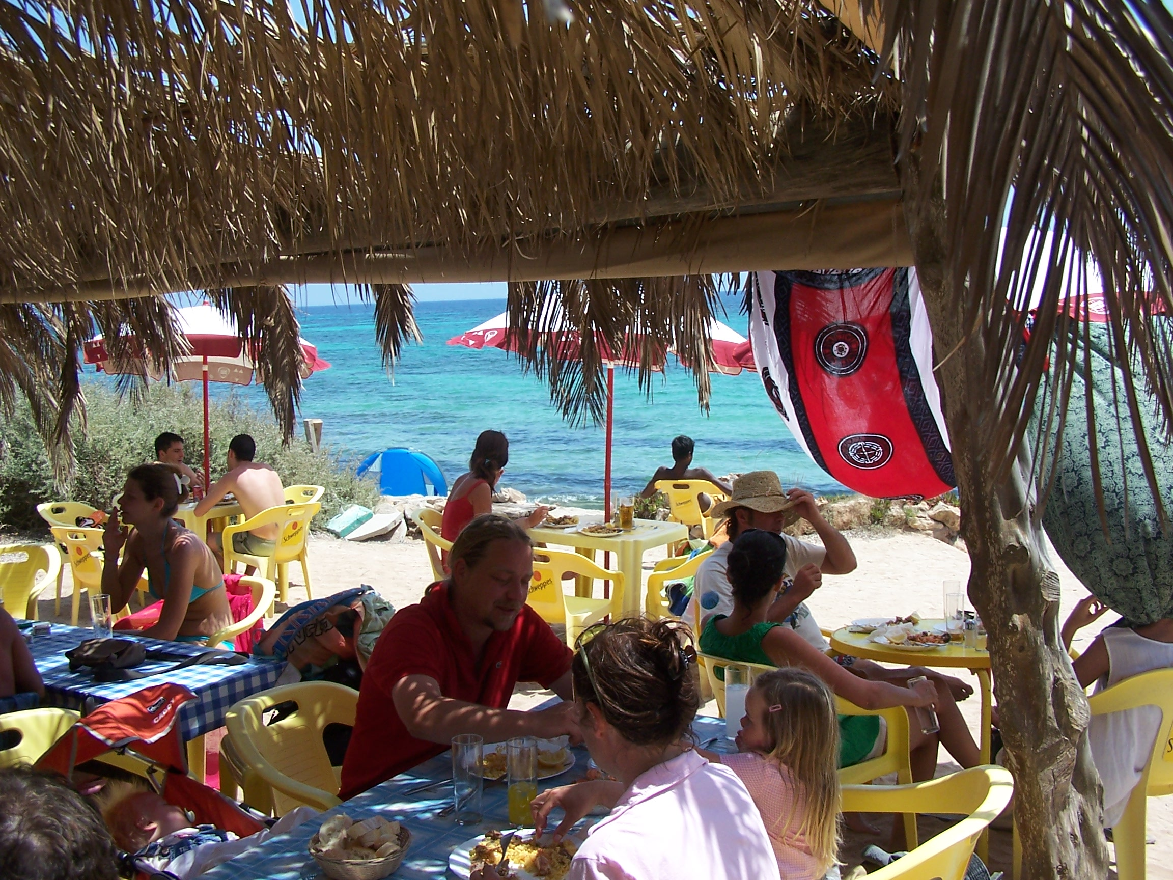 Terrace of a restaurant on a beach of Formentera.